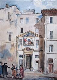 Ss. Orsola e Caterina by Achille Pinelli (1834)